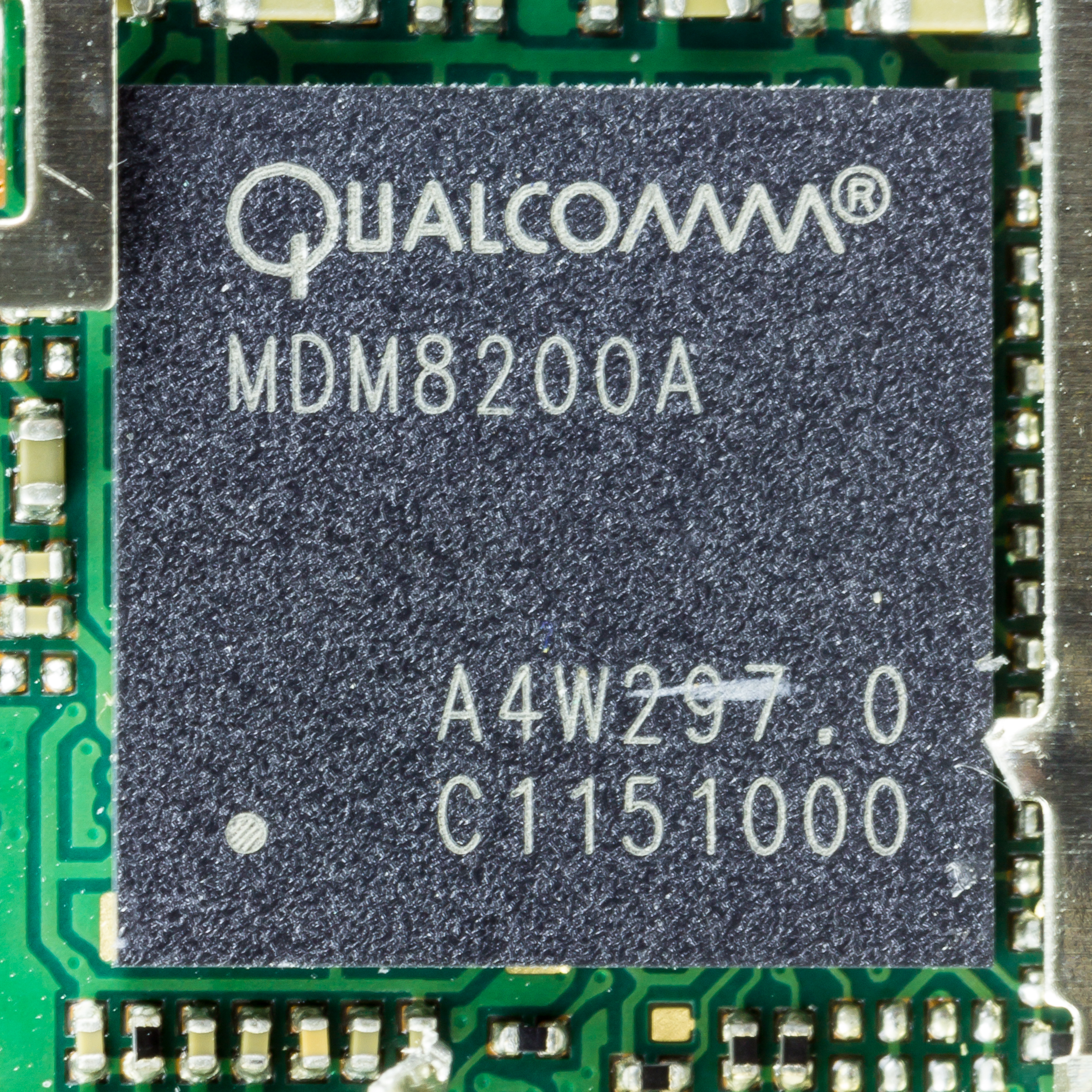 Huawei E367, O2 Surfstick Plus - Qualcomm MDM8200A